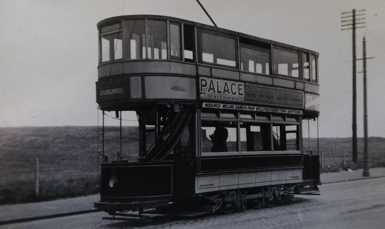 Bexley Car 17 ex L.C.C. Class B.